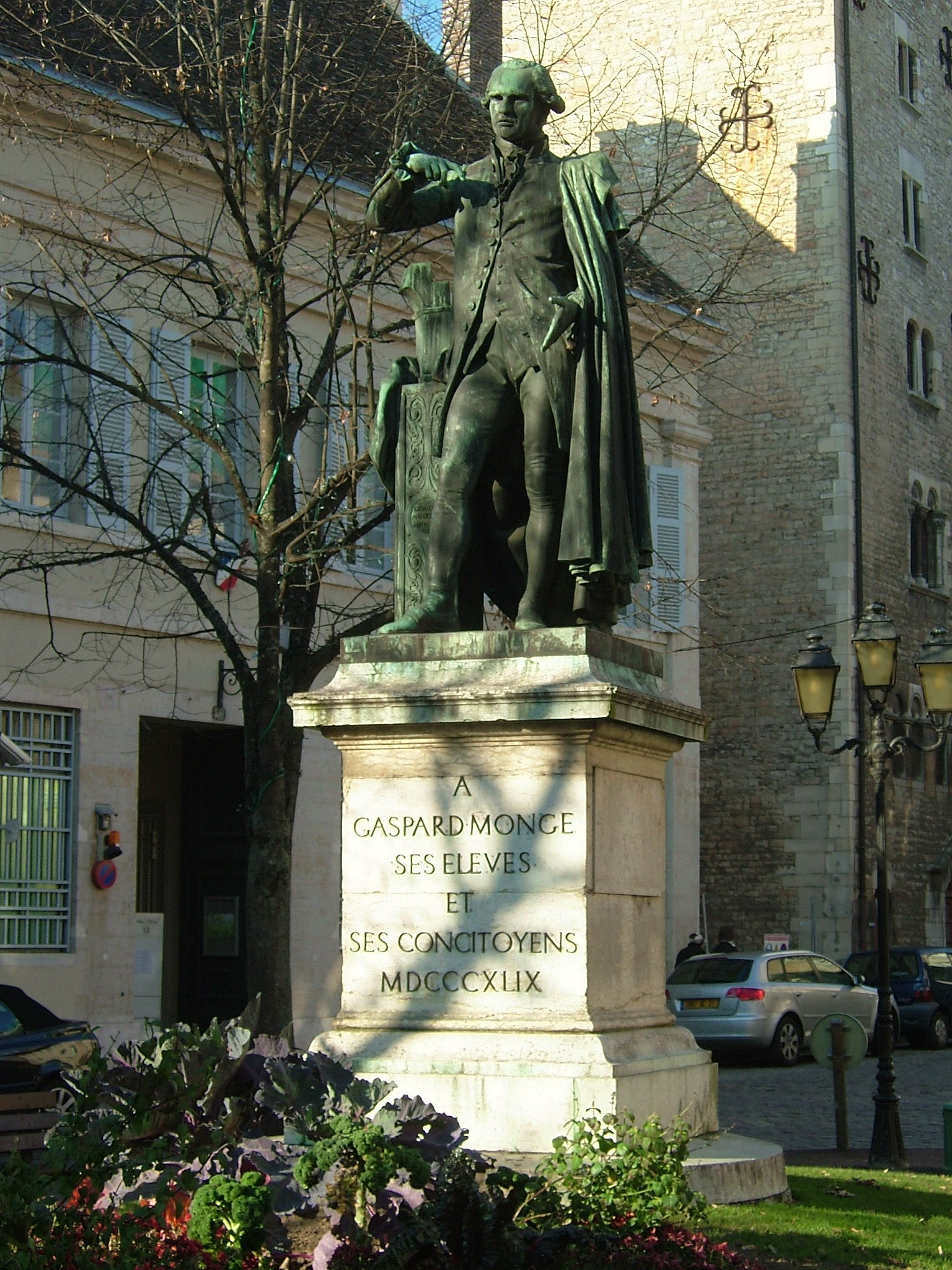 This is a picture I took Dec 14, 2007, in Beaune, of the statue of Gaspard Monge.